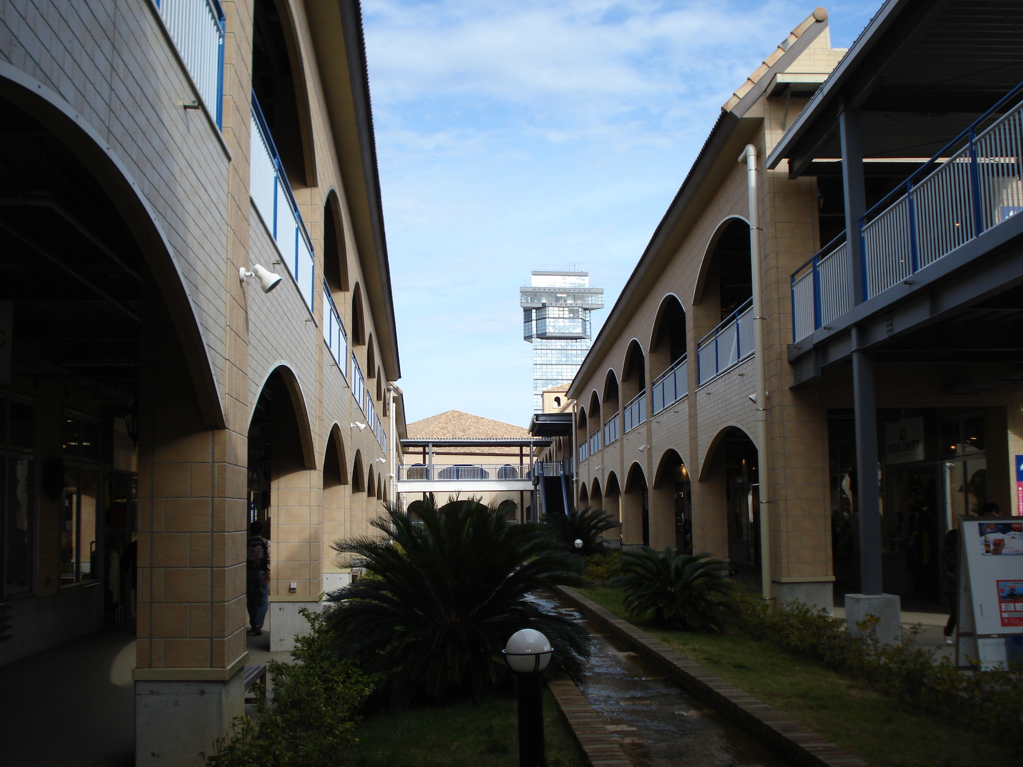 Water Garden at the Resort Outlets Oarai in Oarai Town, Ibaraki Prefecture, Japan